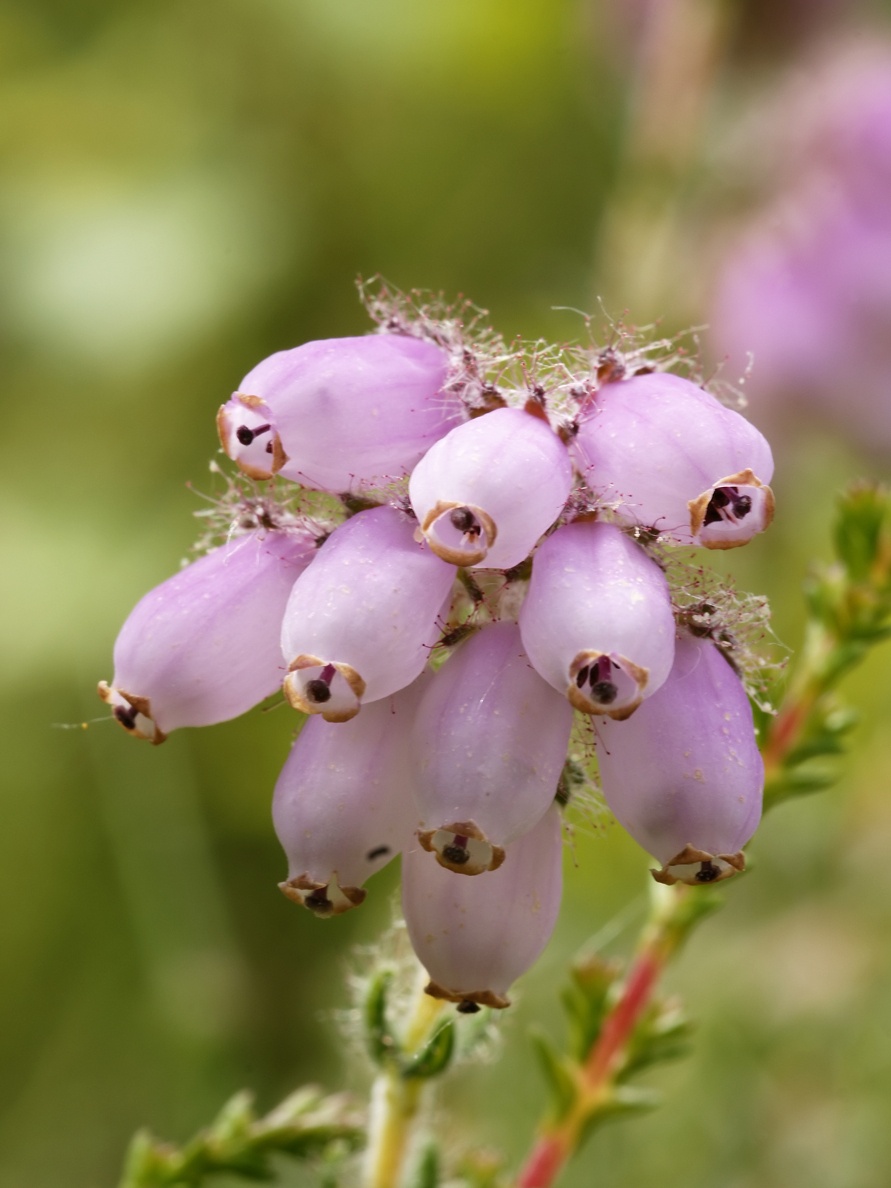 Cross-leaved heath at Tillegem Bos, Brugge, Belgium